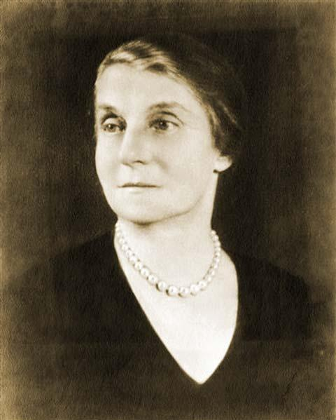 Caroline Bamberger Frank Fuld (1864-1944), photo circa 1920